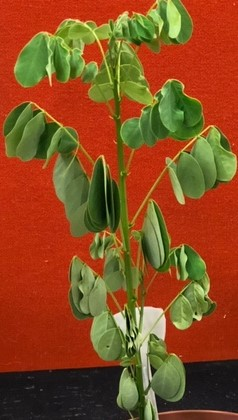 the first year of the S. spectabilis plant